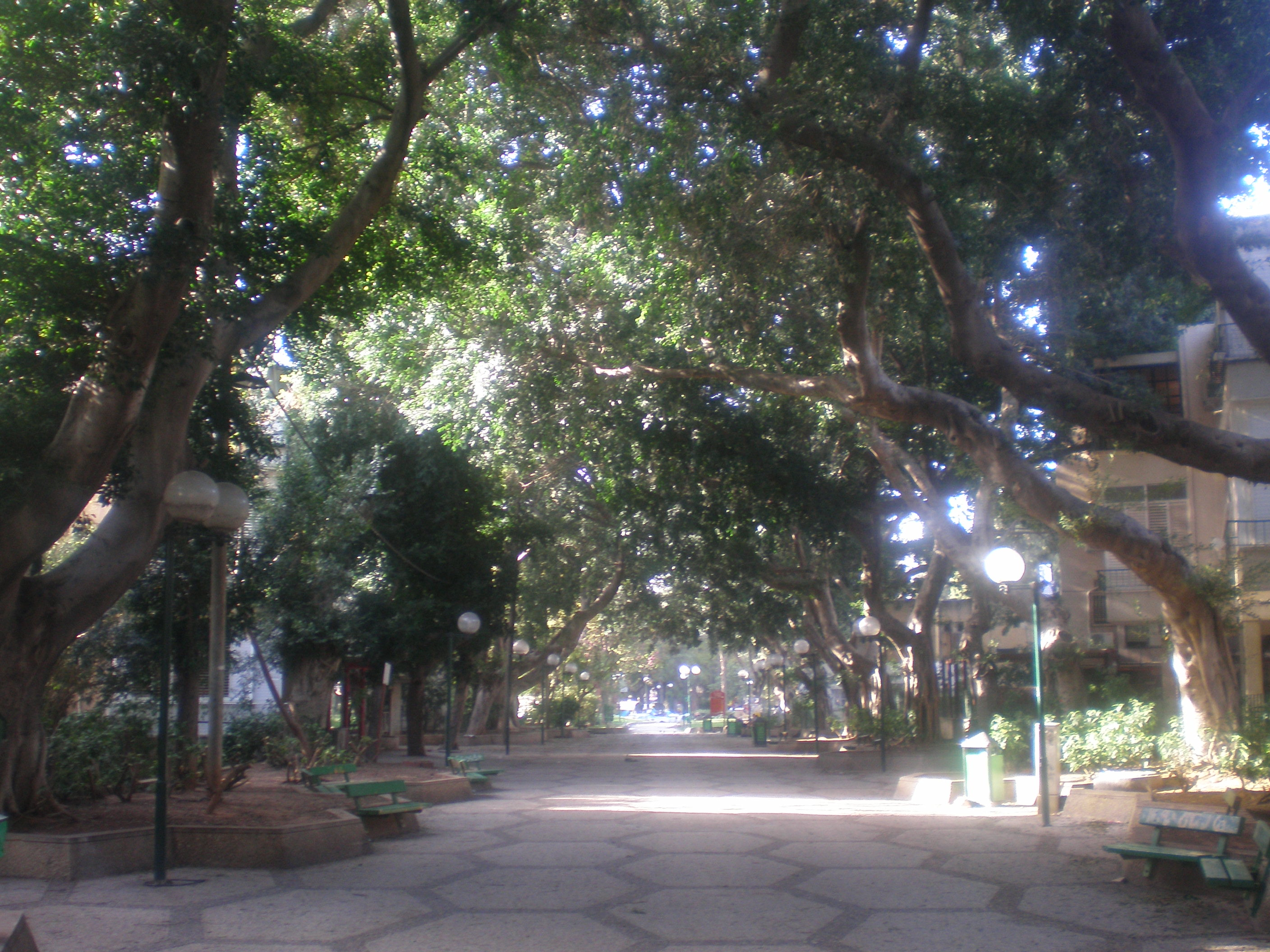 Ramat Gan Sderot Hayeled, Ramat Gan